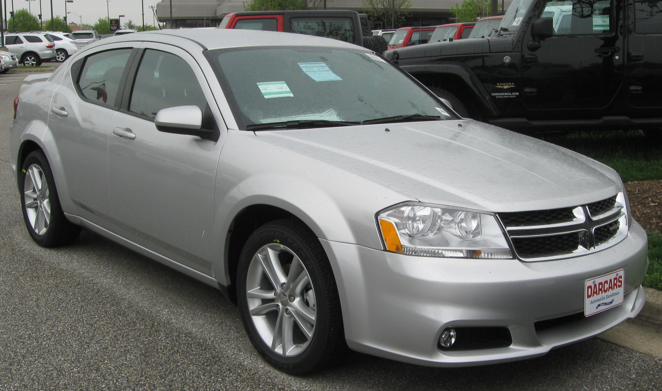 2011 Dodge Avenger photographed in Silver Spring, Maryland, USA.